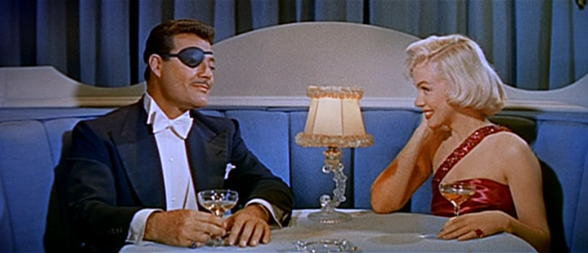 Cropped screenshot of Alexander D'Arcy and Marilyn Monroe in the trailer for the film How to Marry a Millionaire